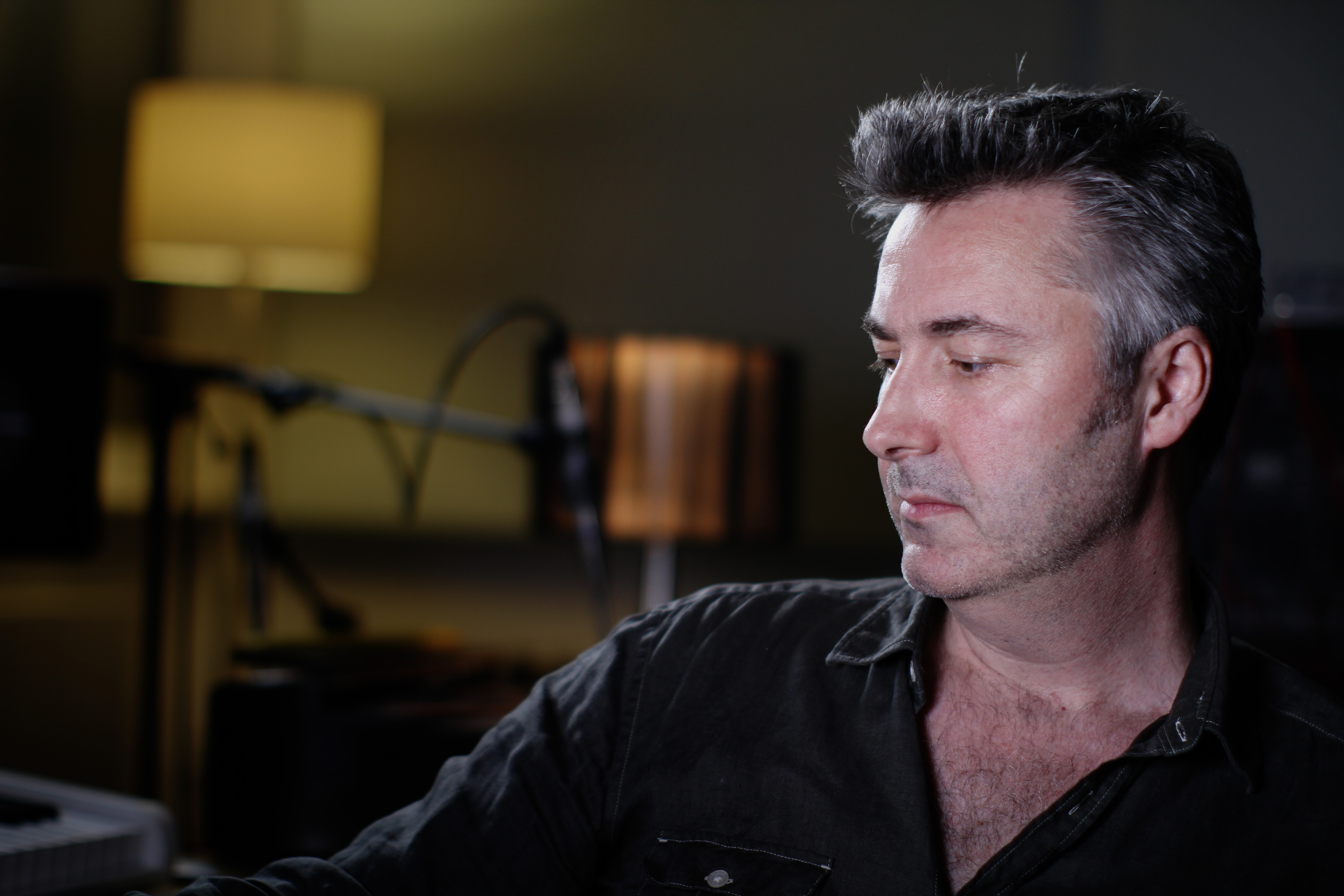 Musician and composer Neil Davidge.